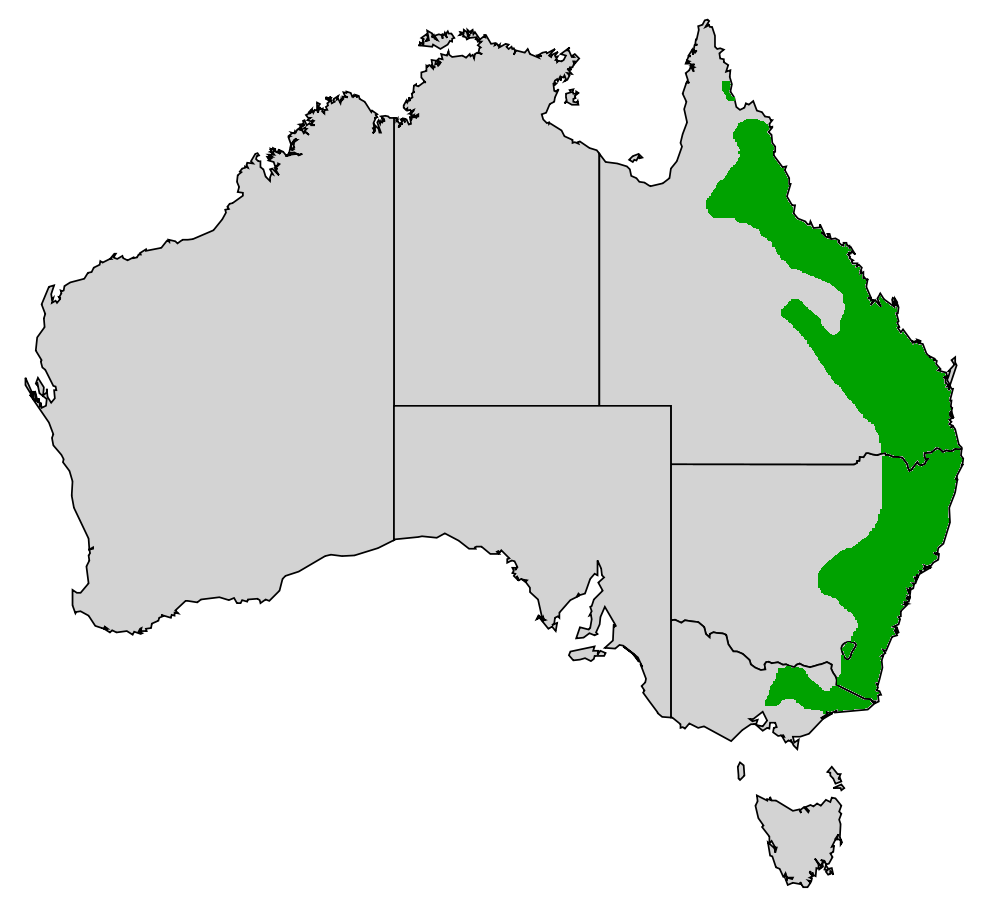 Scarlet myzomela range map. Data from Higgins, Peter J. , ed. (2001) Handbook of Australian, New Zealand and Antarctic Birds. Volume 5: Tyrant-flycatchers to Chats, Melbourne: Oxford University Press, p. 1,166 ISBN: 0-19-553258-9. Base map of Australia was File:Australia map, States.svg